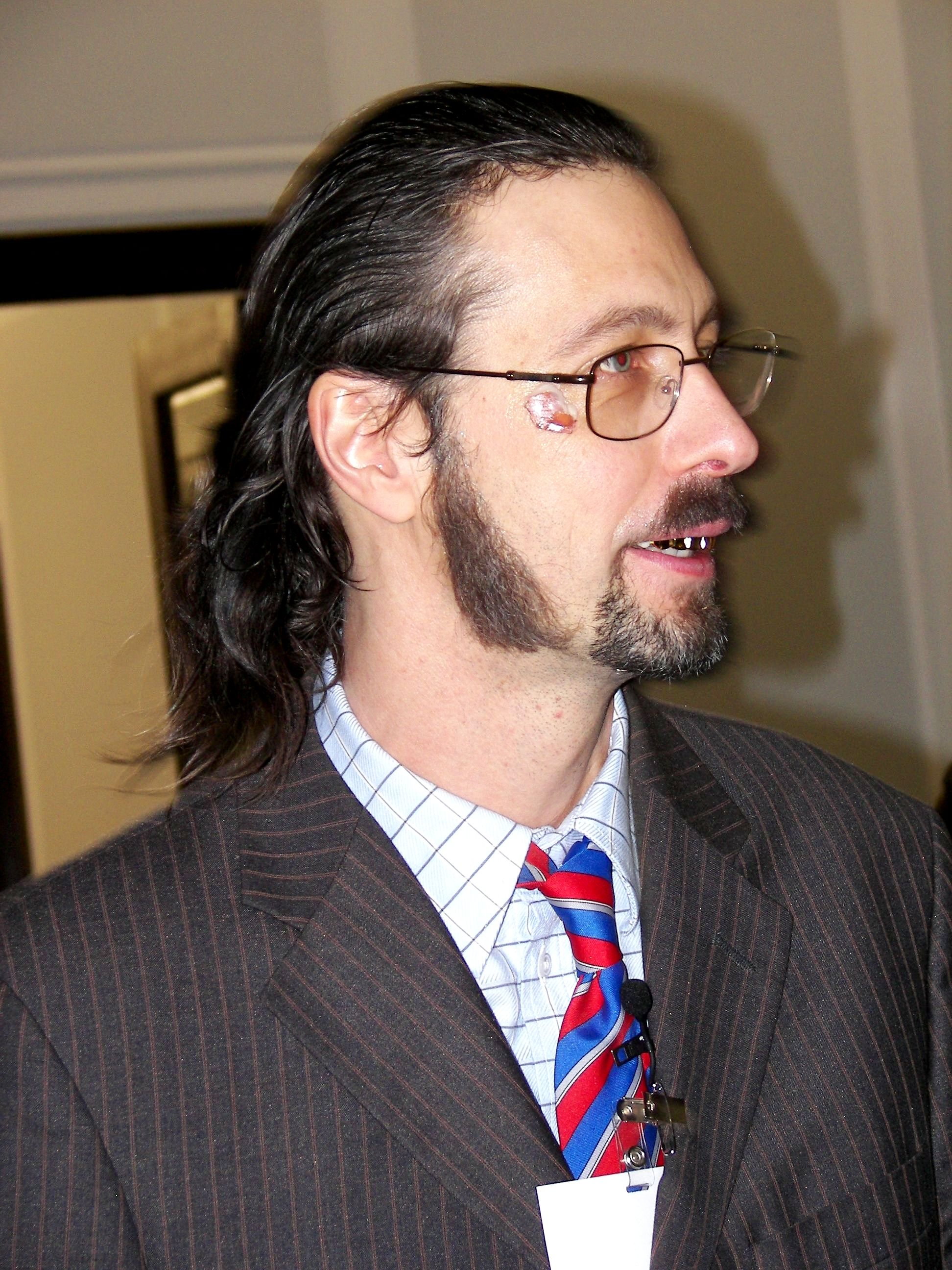 Szymon Majewski - Polish journalist, shownam, radio / TV announcer and comedian during his appearance in the Polish parliament, November 5th, 2007